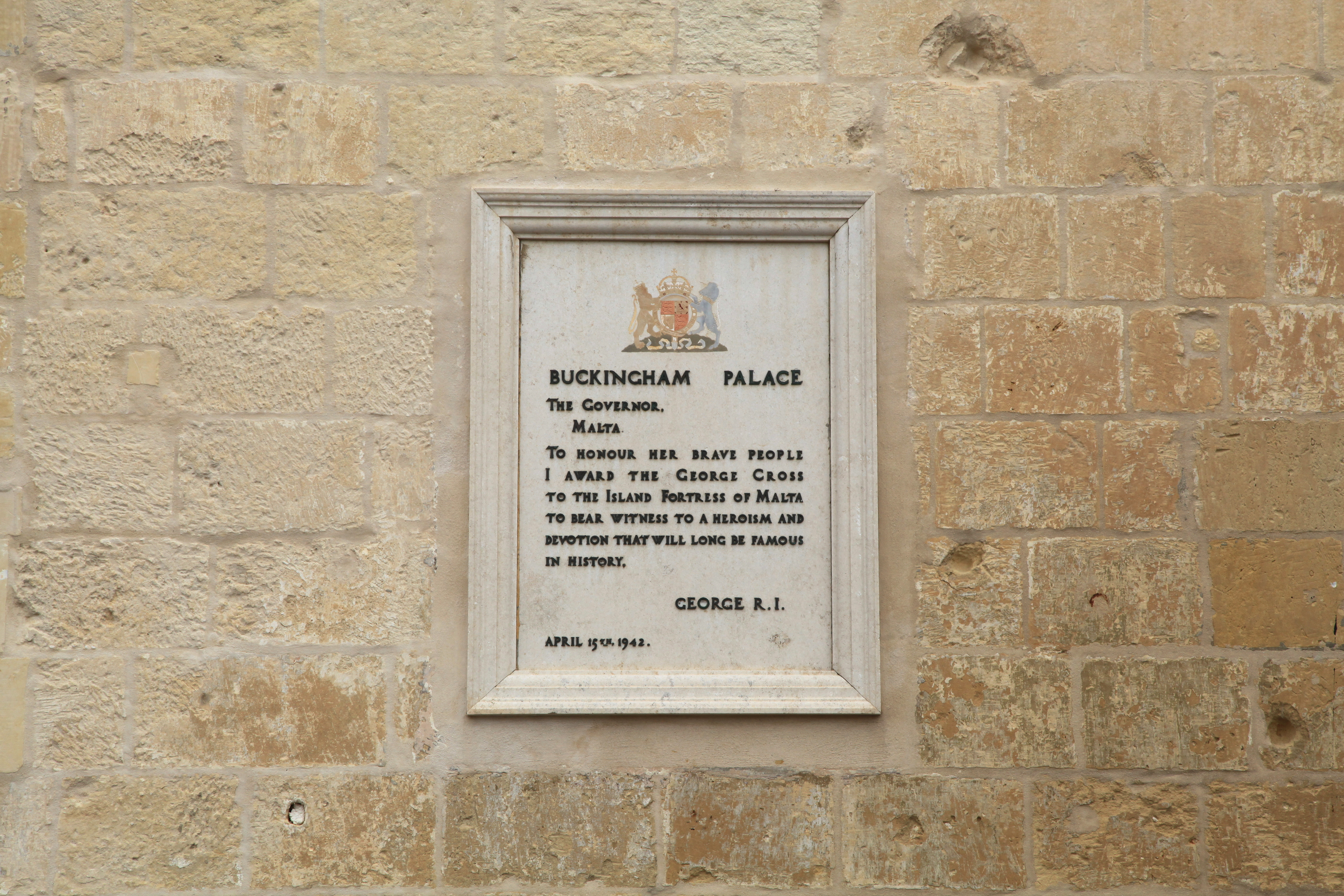 Grandmaster's Palace at Misraħ San Ġorġ, Triq ir-Repubblika in Valletta, Malta